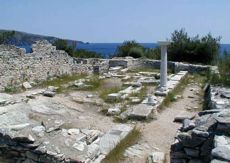 Photograph taken by Marsyas 13:52, 28 October 2005 (UTC)